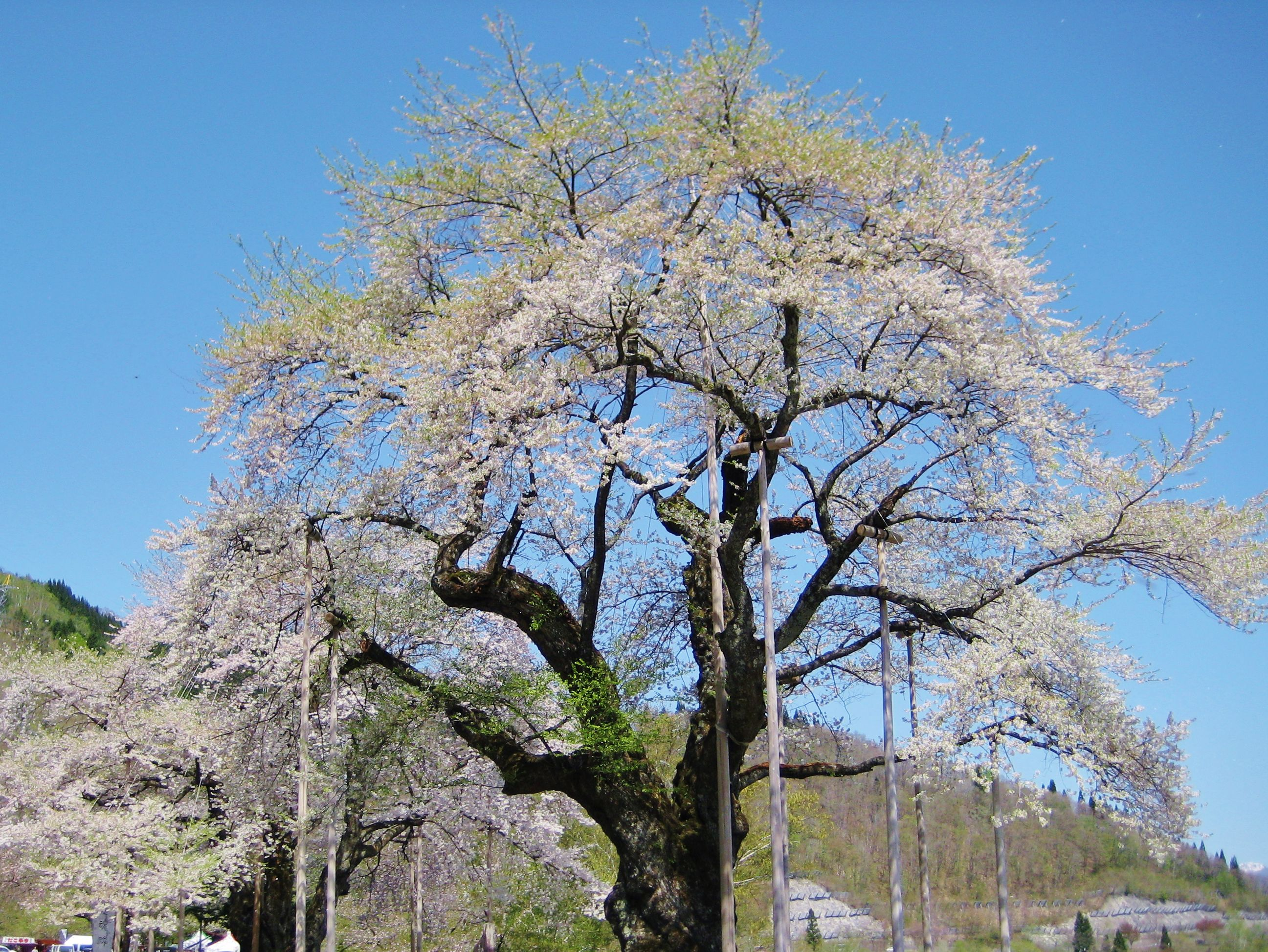 Shokawa Zakura.